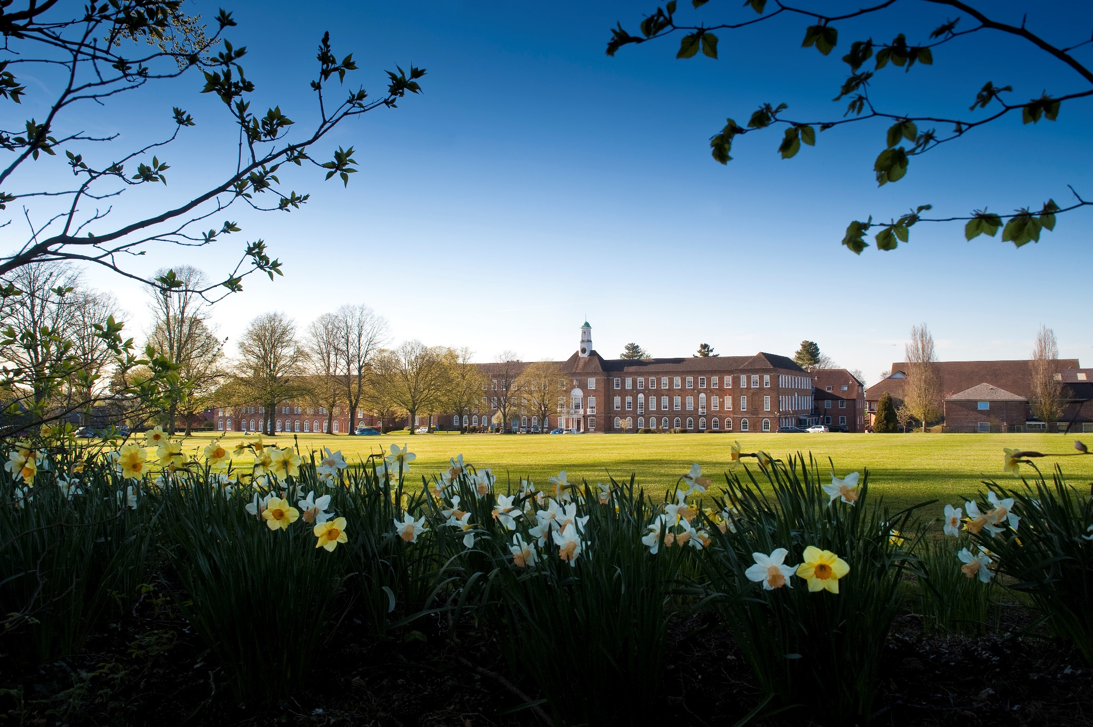 St Swithun's School grounds